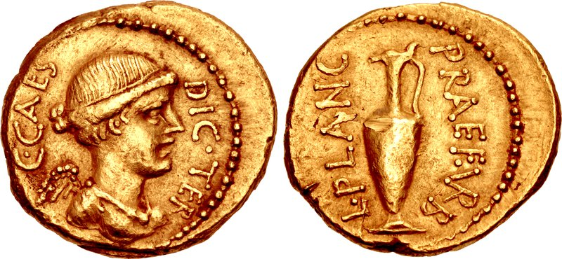 Julius Caesar Late 46-early 45 BC. AV Aureus (19mm, 7.80 g, 7h). Rome mint. L. Munatius Plancus, praefectus Urbi. Diademed and draped bust of Victory right; C • CAESAR DIC • TER around / Sacrificial jug with one handle; L • PLANC upward to left, PRAEF • (VR)B downward to right. Crawford 475/1a; CRI 60; Calicó 45; Sydenham 1019-1019a; RBW 1663. Good VF, toned, a scrape on the jug.